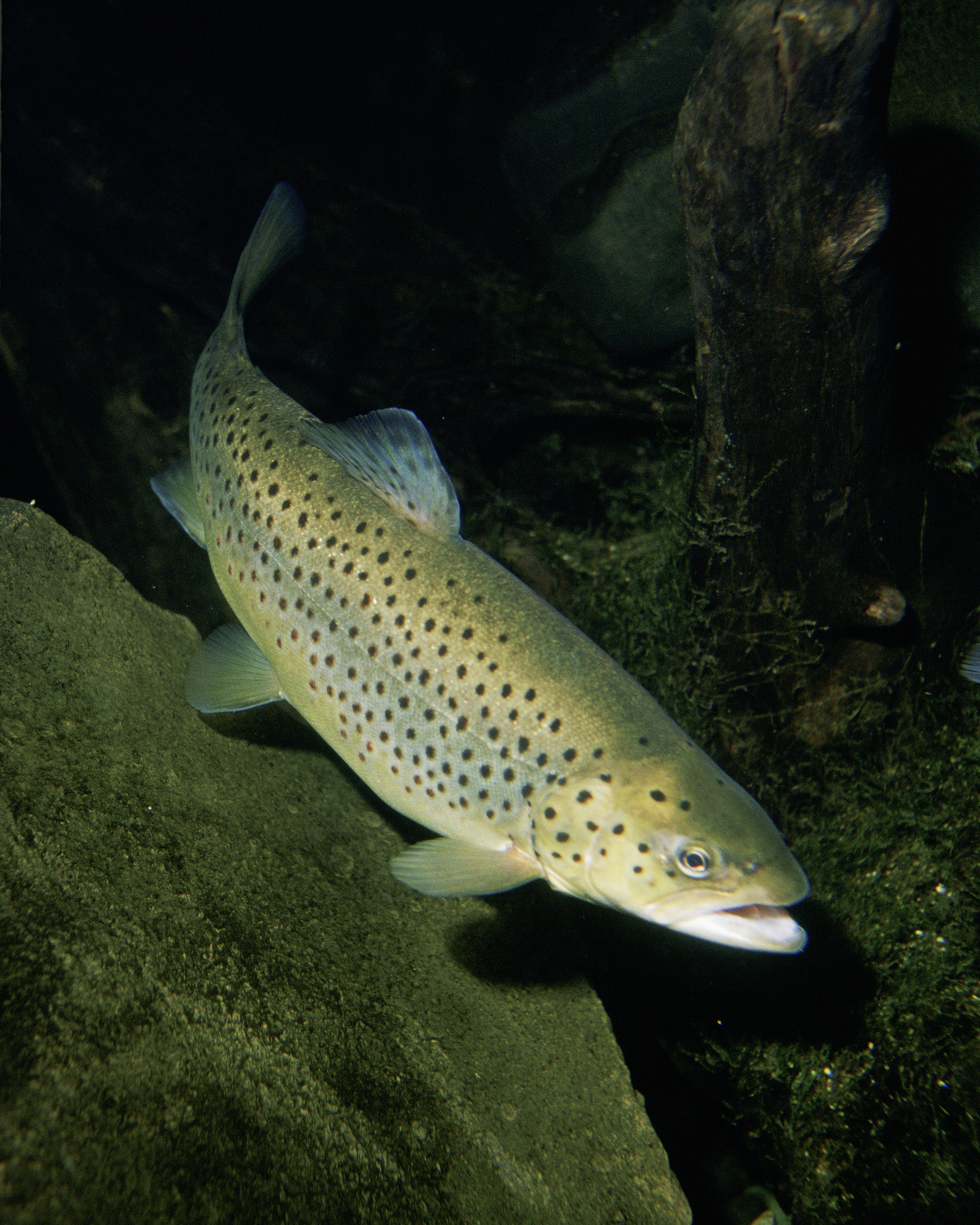 Brown Trout (Salmo trutta)